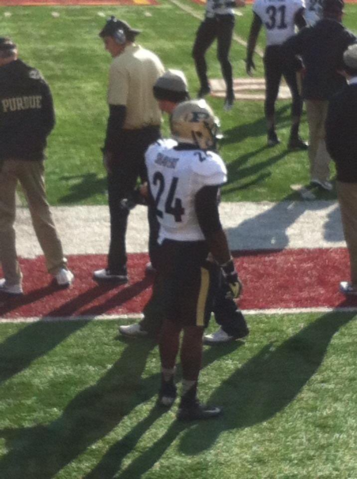 Akeem Shavers of Purdue University